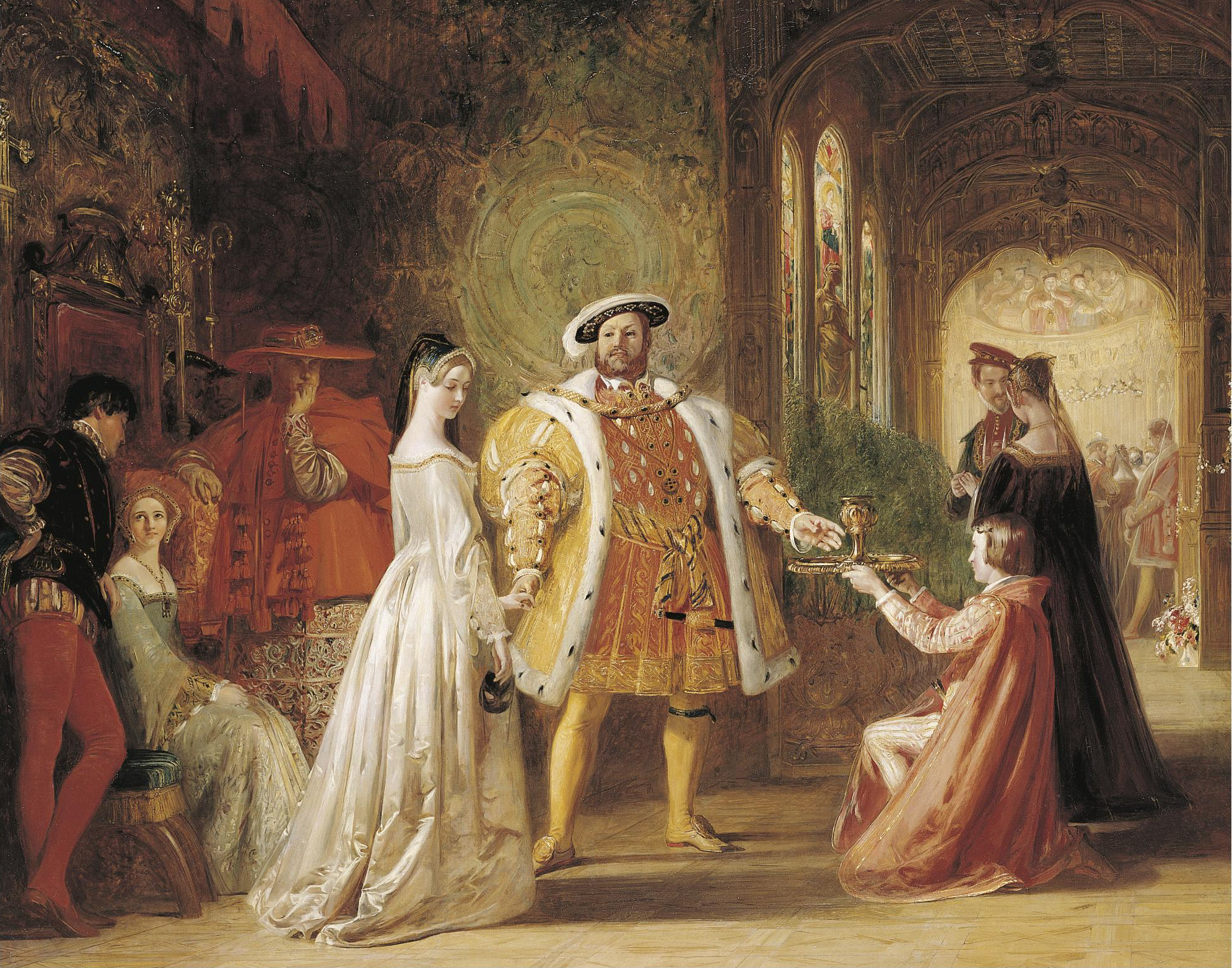 Henry VIII's first interview with Anne Boleyn signed and dated l.l.: D. MACLISE 1835 oil on canvas 132 by 156 cm Exhibited at London, British Institution, 1836, no. 61